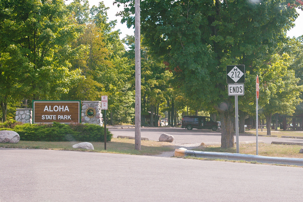 The western terminus of M-212 at Aloha State Park